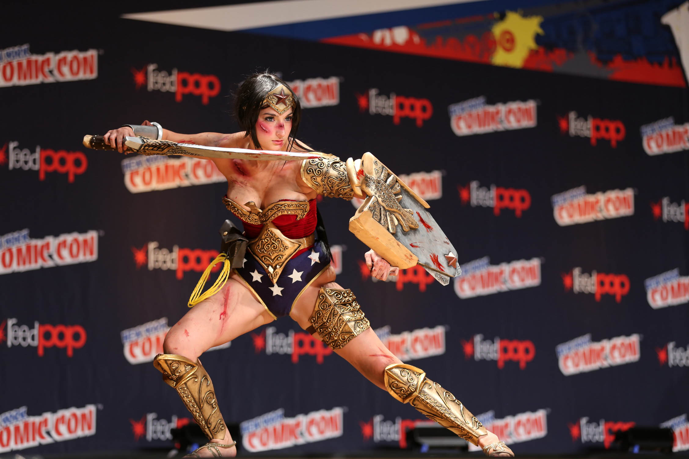 Cosplay at the 2014 New York Comic Con.